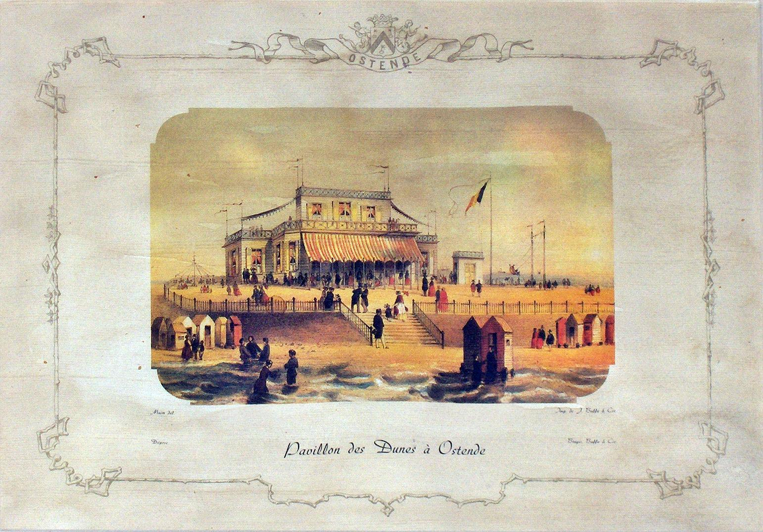 "Pavillon des Dunes " in Ostend - lithography by François Musin (1820-1888) private collection